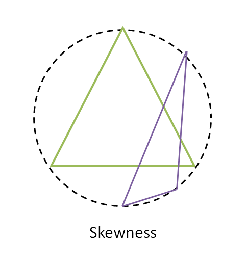 Skewness compared to an equilateral triangle